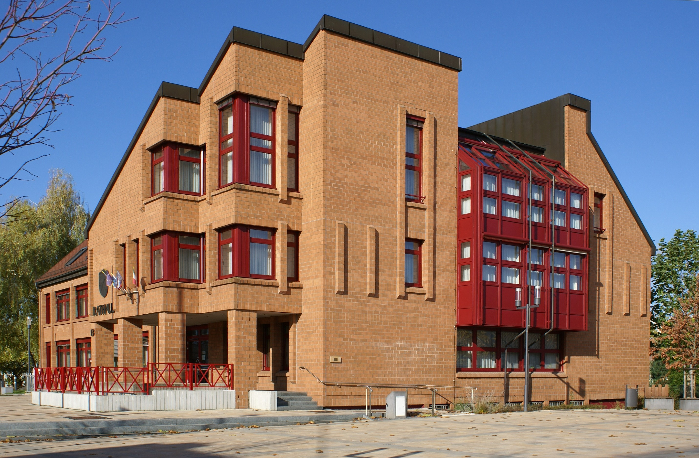 Town hall of the community Freigericht (Hessen) in Somborn